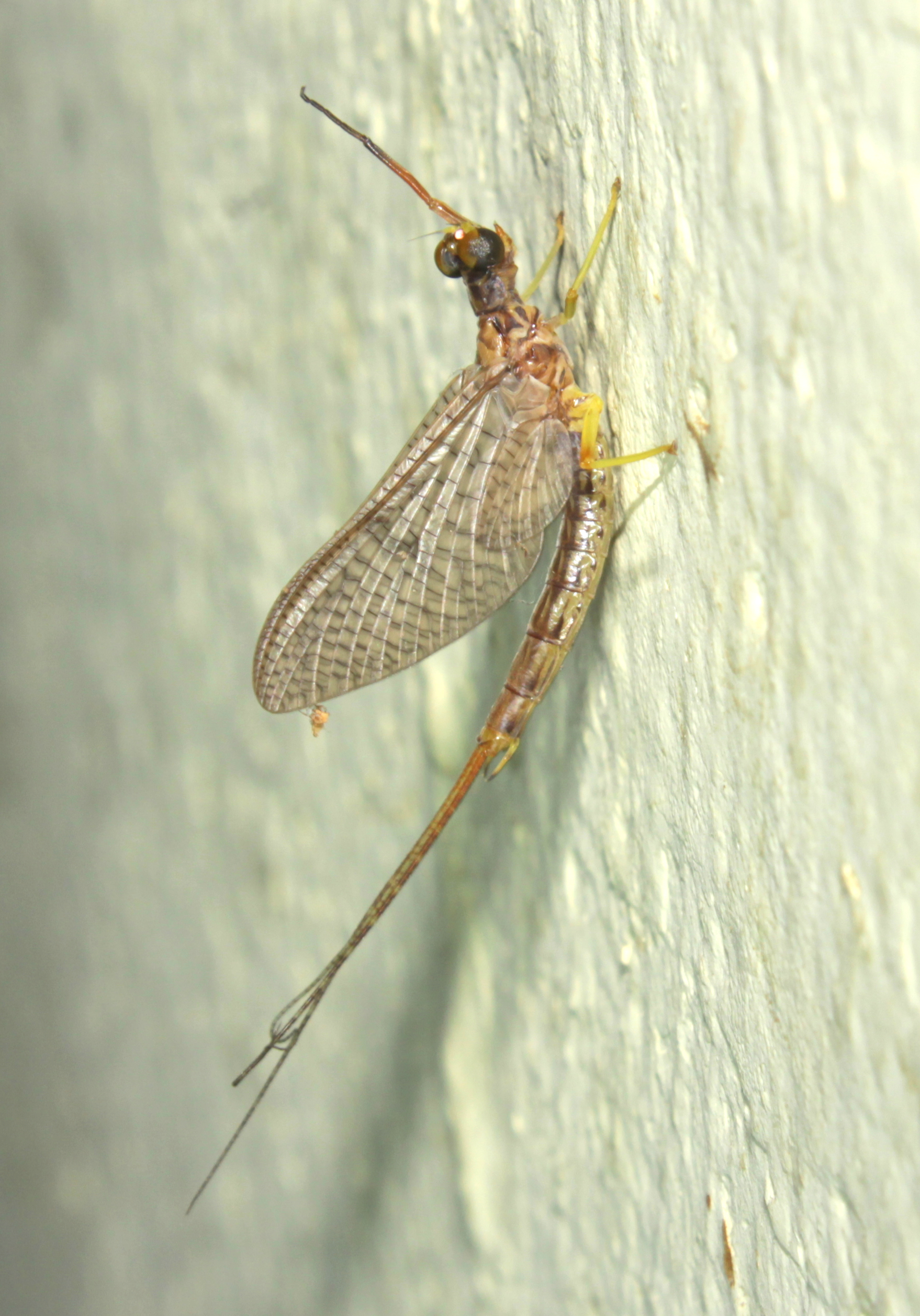 Unidentified Mayfly. Photographed near Kanjirappally.